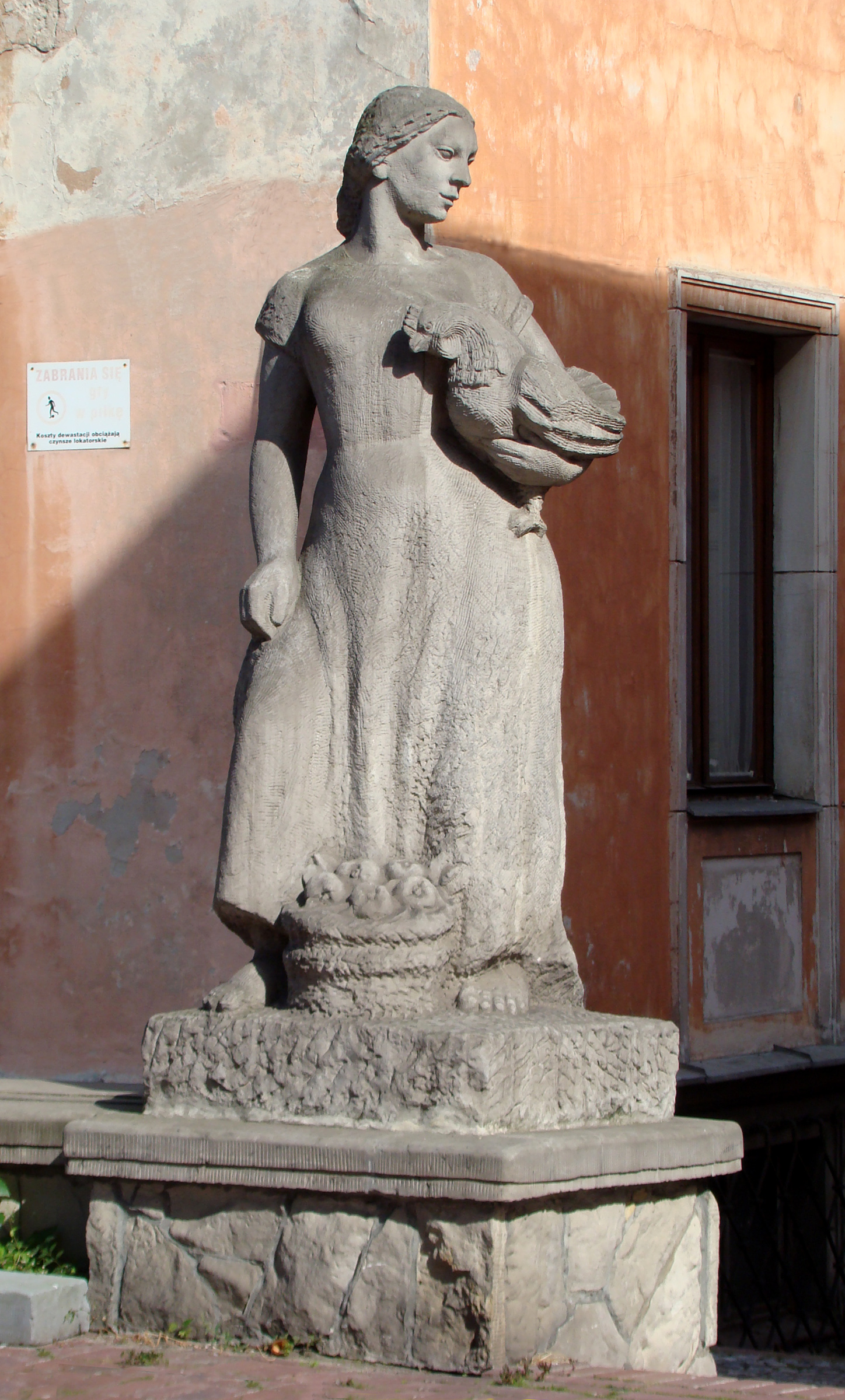 Sculpture at Mariensztat Square, Warsaw